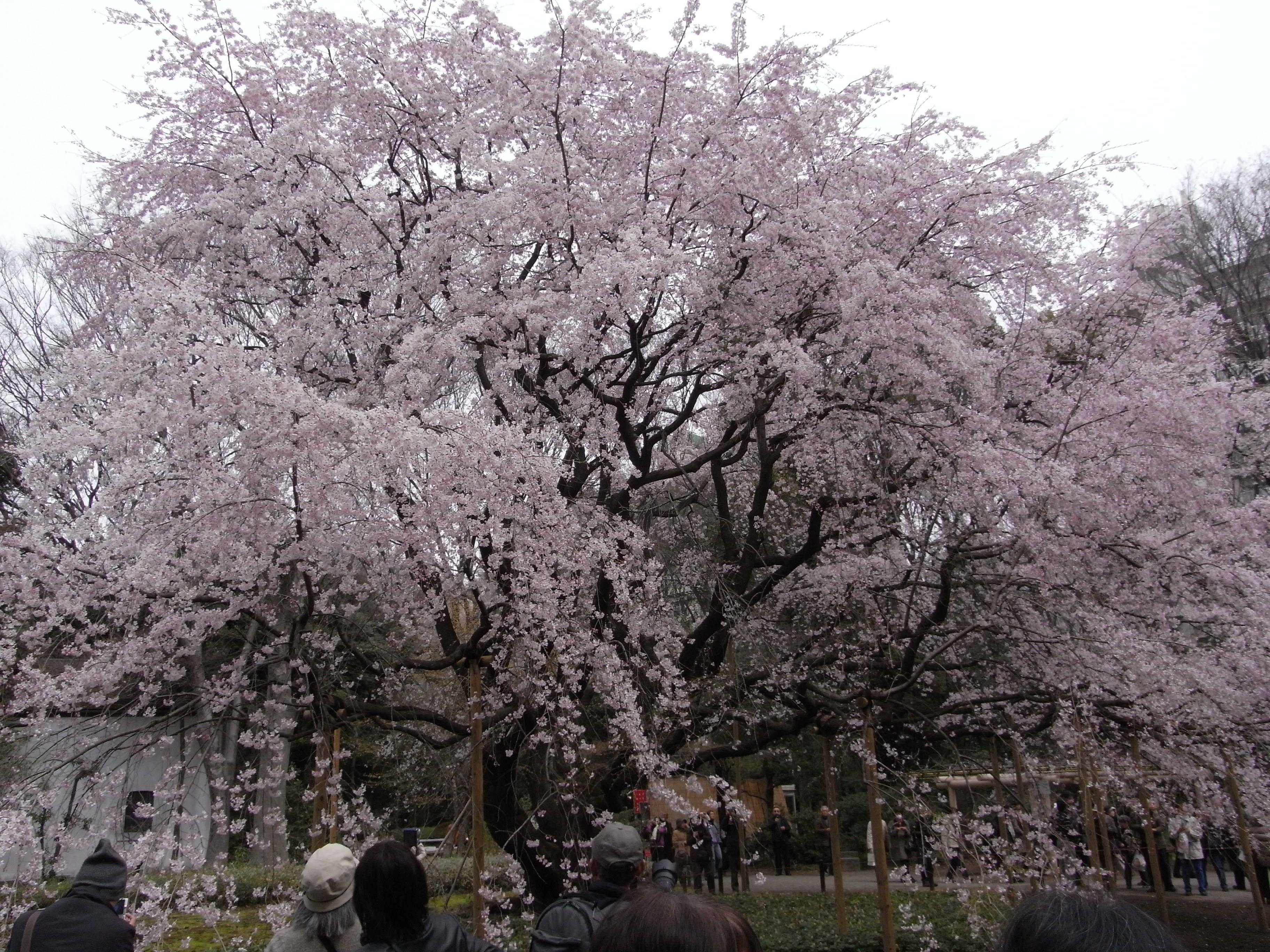 Cherry blossom at Rikugien Park, Tokyo, Japan